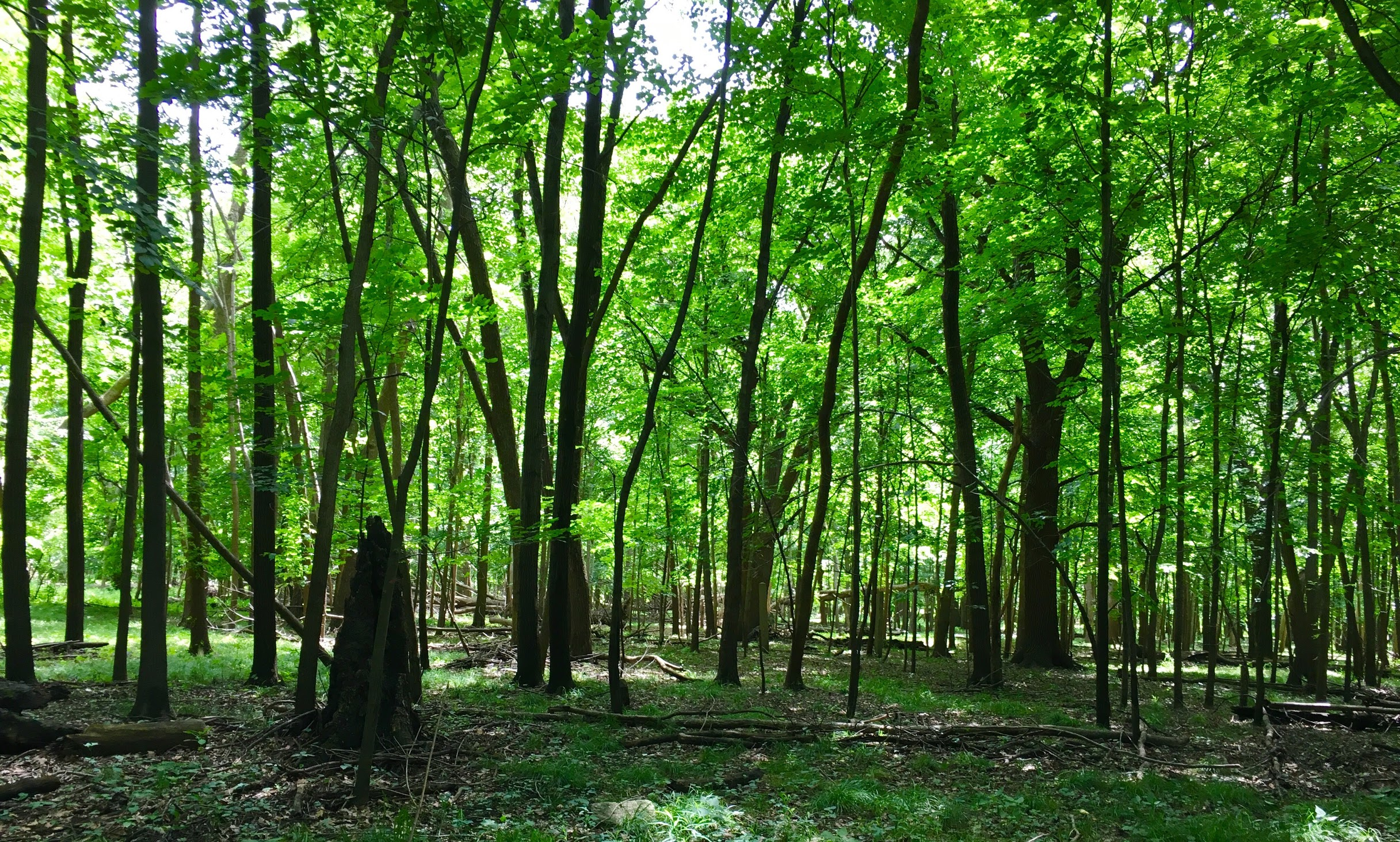 A view from main trail in center of Sans Souci Island, Waterloo, Iowa